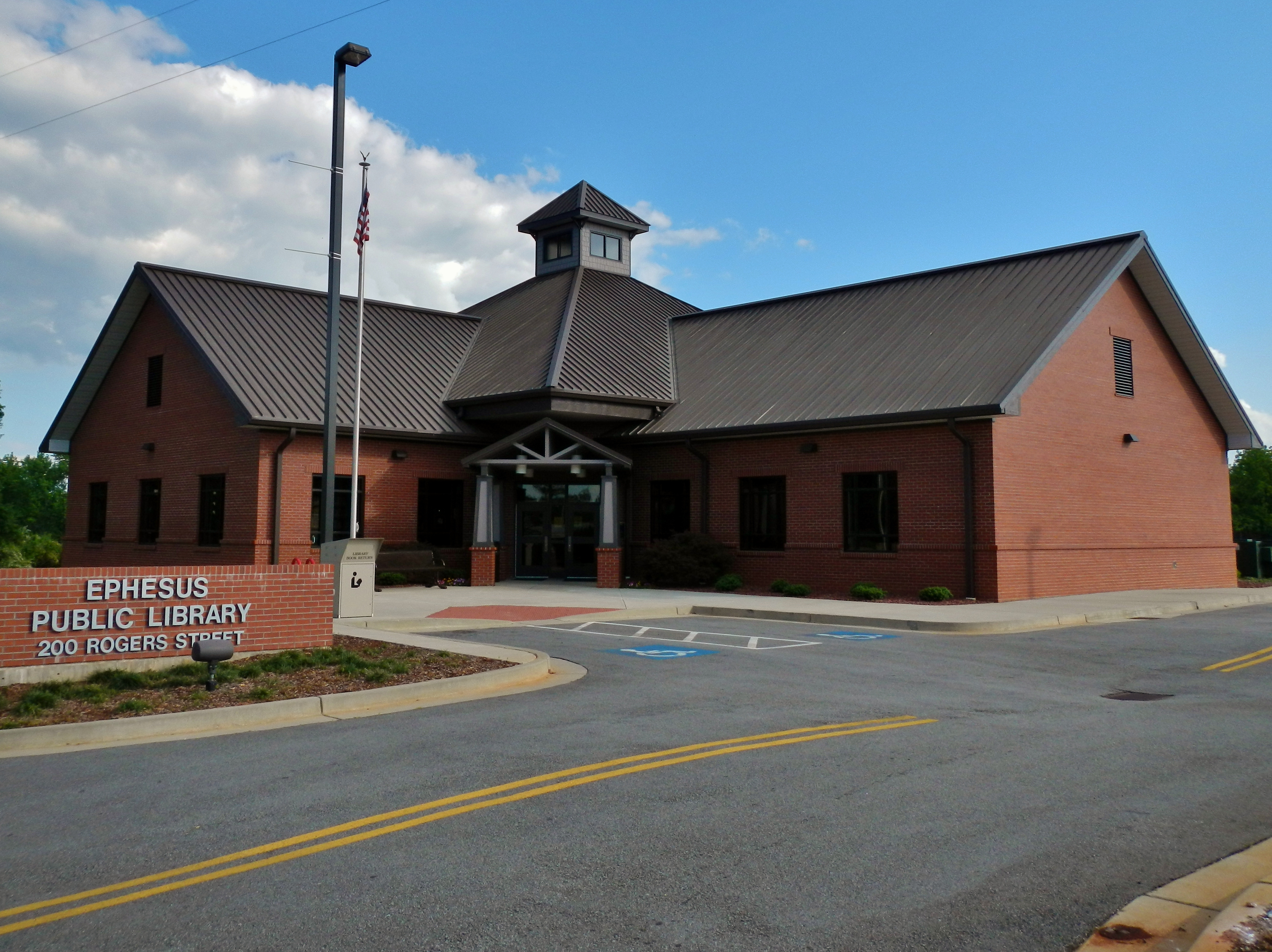 This is a photo of the public library in Ephesus, Georgia.